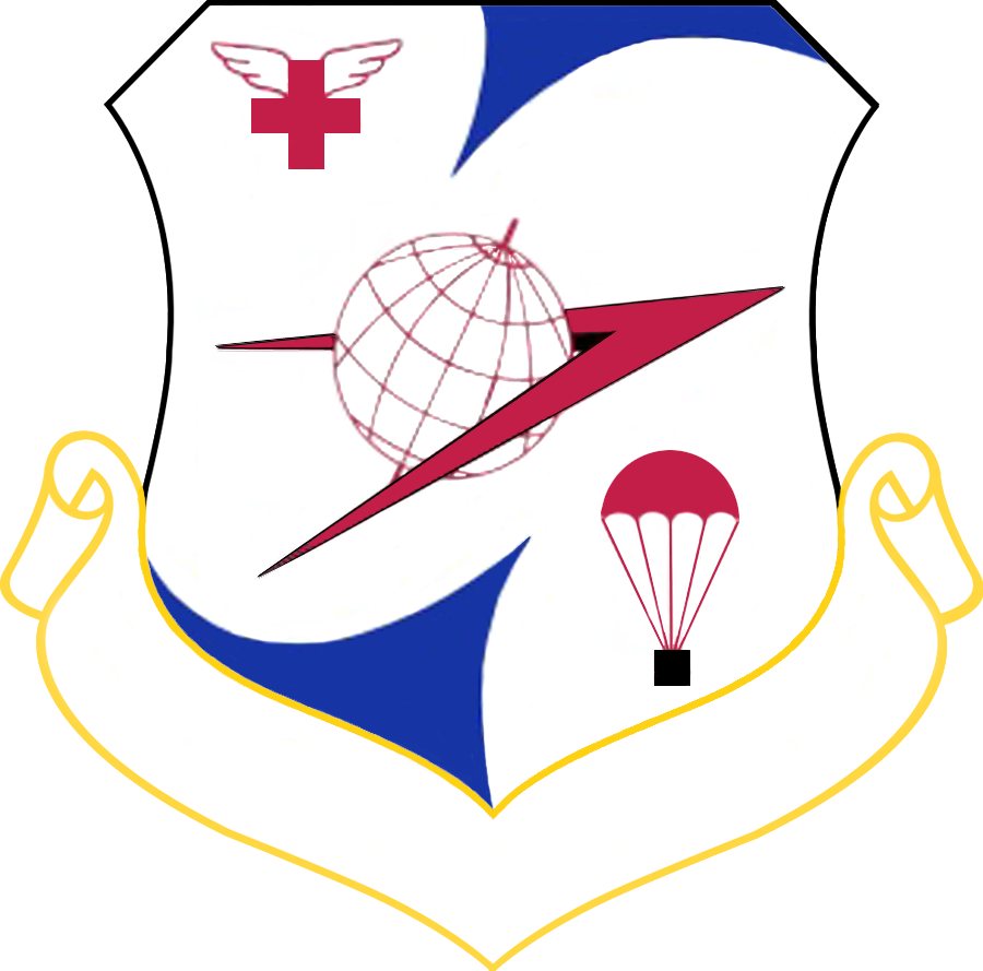 United States Air Force 322nd Airlift Division emblem. Made with Photoshop.